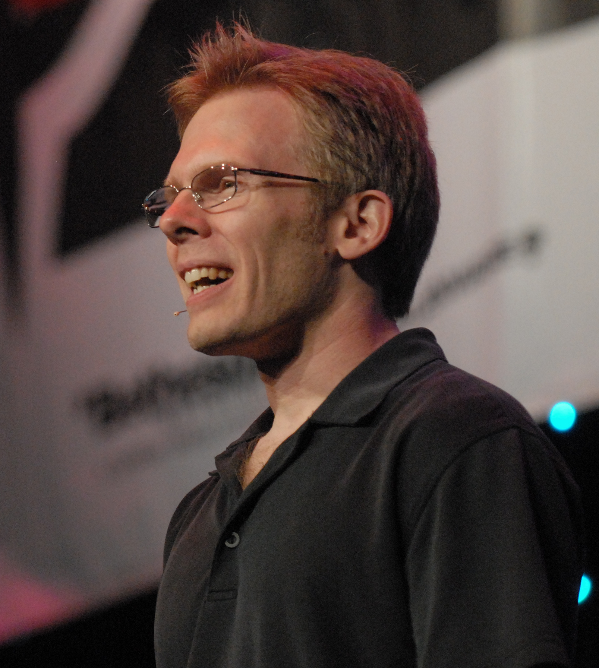 John Carmack at the QuakeCon convention in 2009.